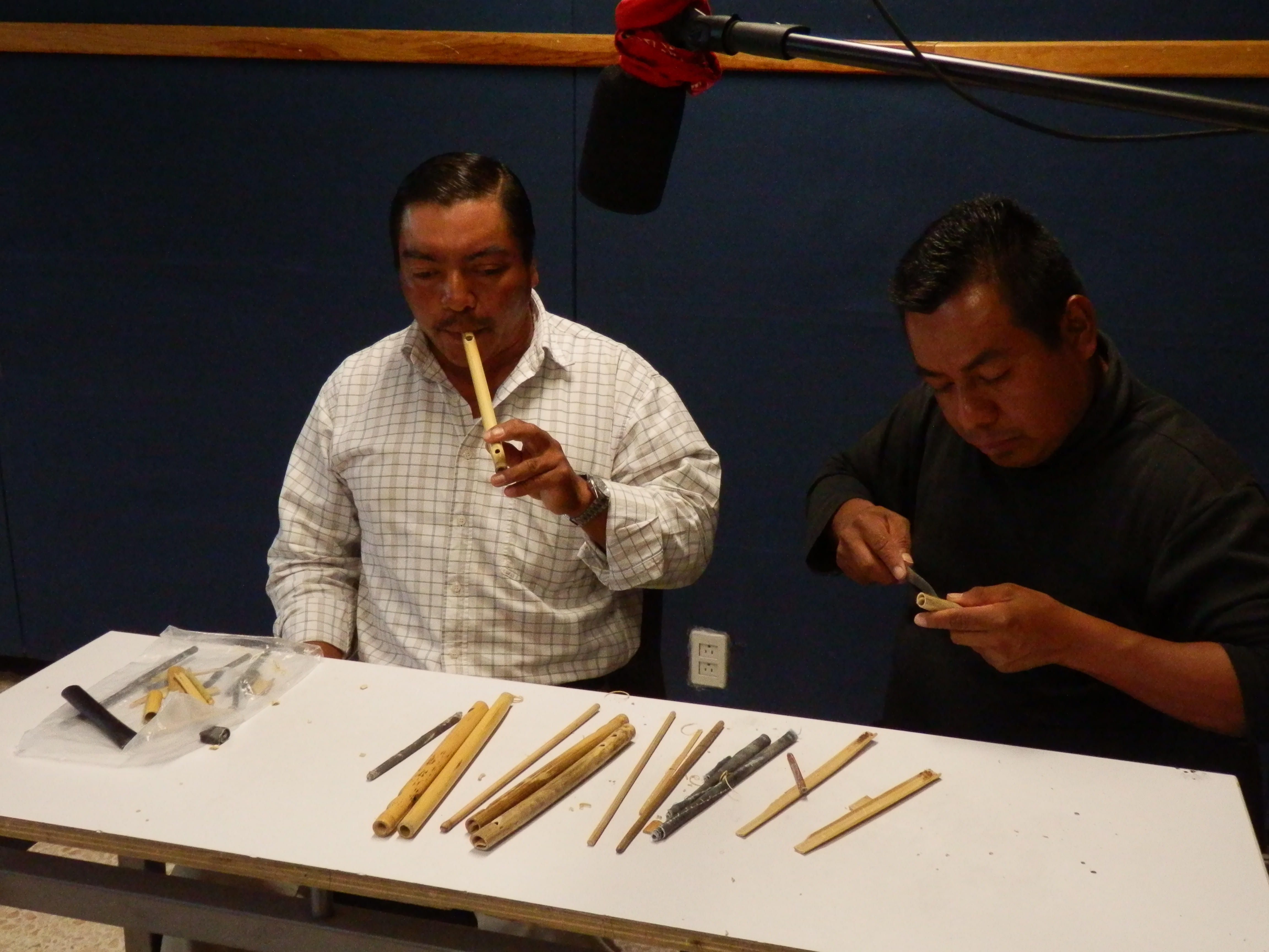 On the left, Máximo Juárez tests a newly made flute; to the right, Ernesto Garcia carving the fipple of his flute under construction. (ENM-UNAM, September 2012).